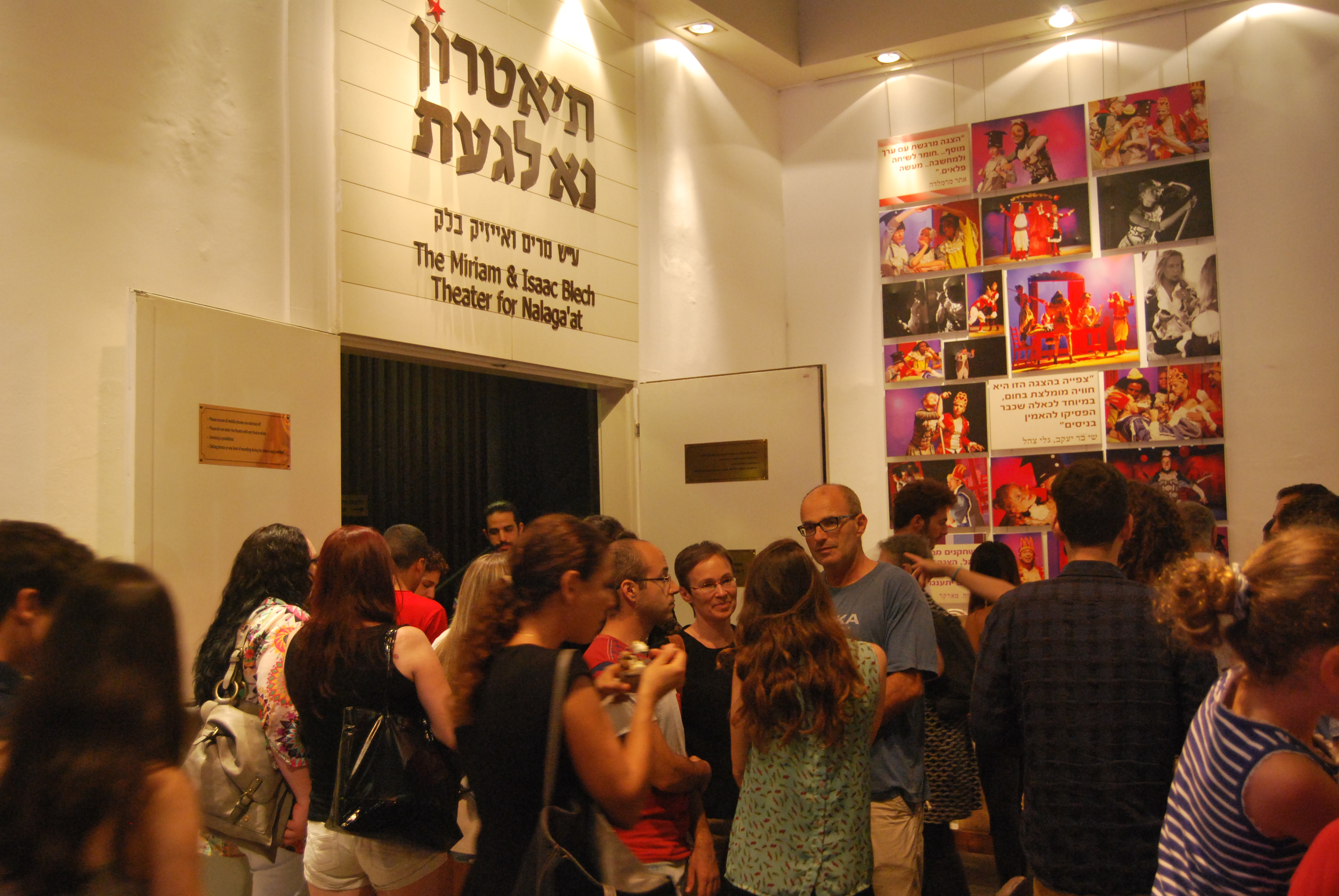 Nalagaat theater entrance